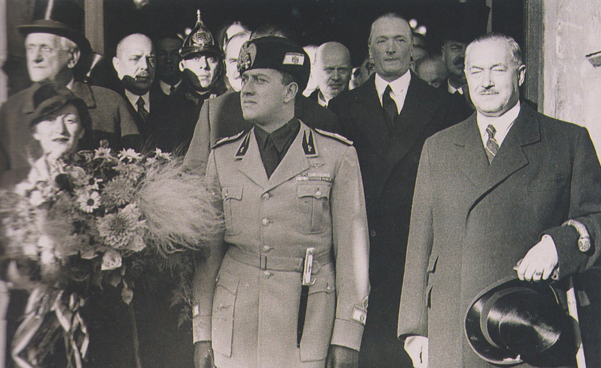 Prime Minister Kálmán Darányi and Foreign Minister Kálmán Kánya greets Italian Foreign Minister Galeazzo Ciano and his wife Edda Mussolini on 13 November 1936.